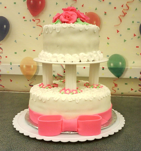 yellow cake with buttercream filling and covered in vanilla marshmallow fondant decorated with fondant pieces and buttercream made by Marty